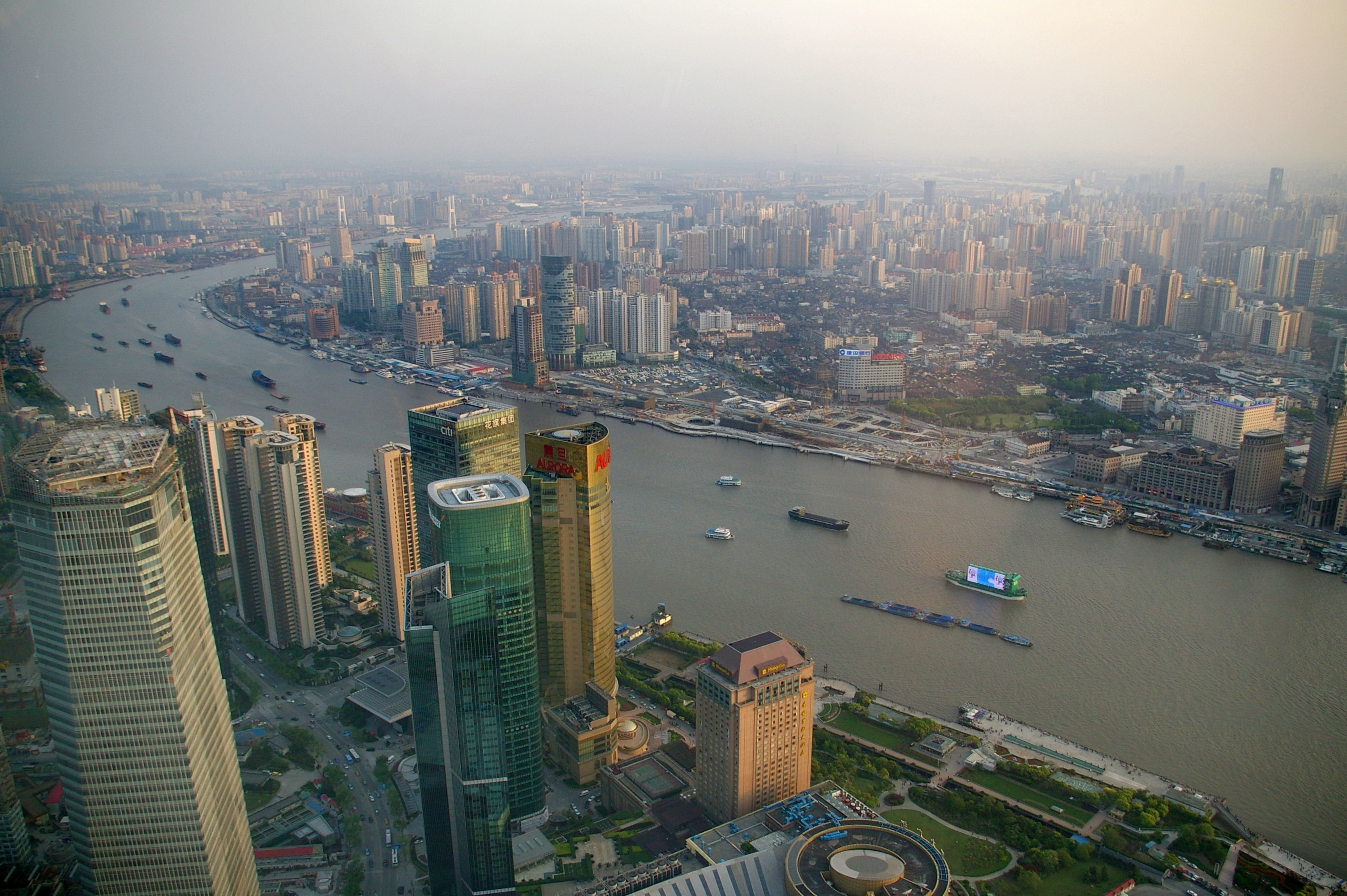 Huangpu river in Shanghai, view from The Oriental Pearl Tower